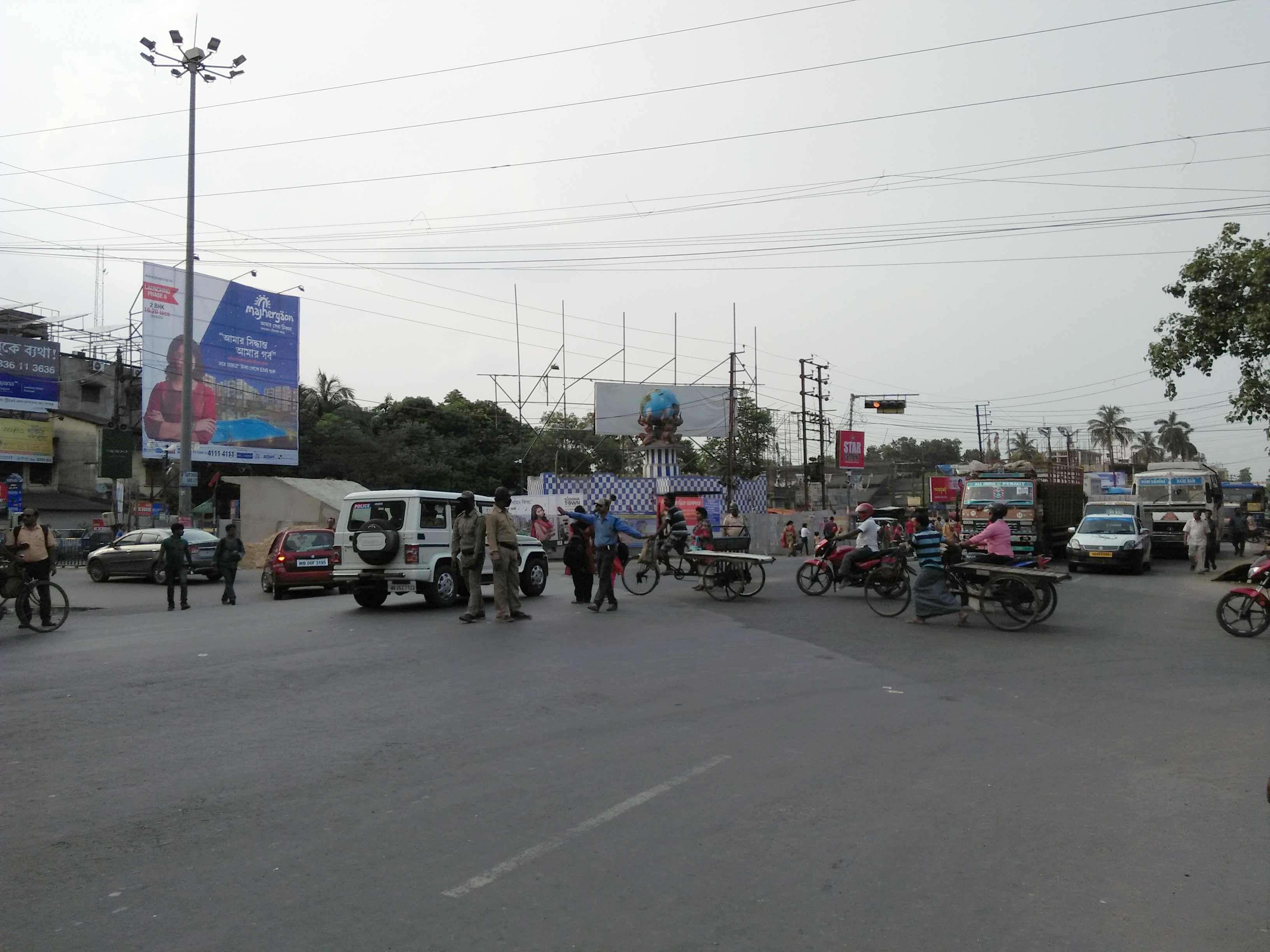 This was taken in North 24 Parganas.